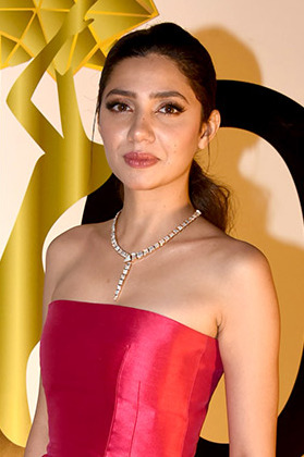 Mahira Khan graces Masala Awards 2017